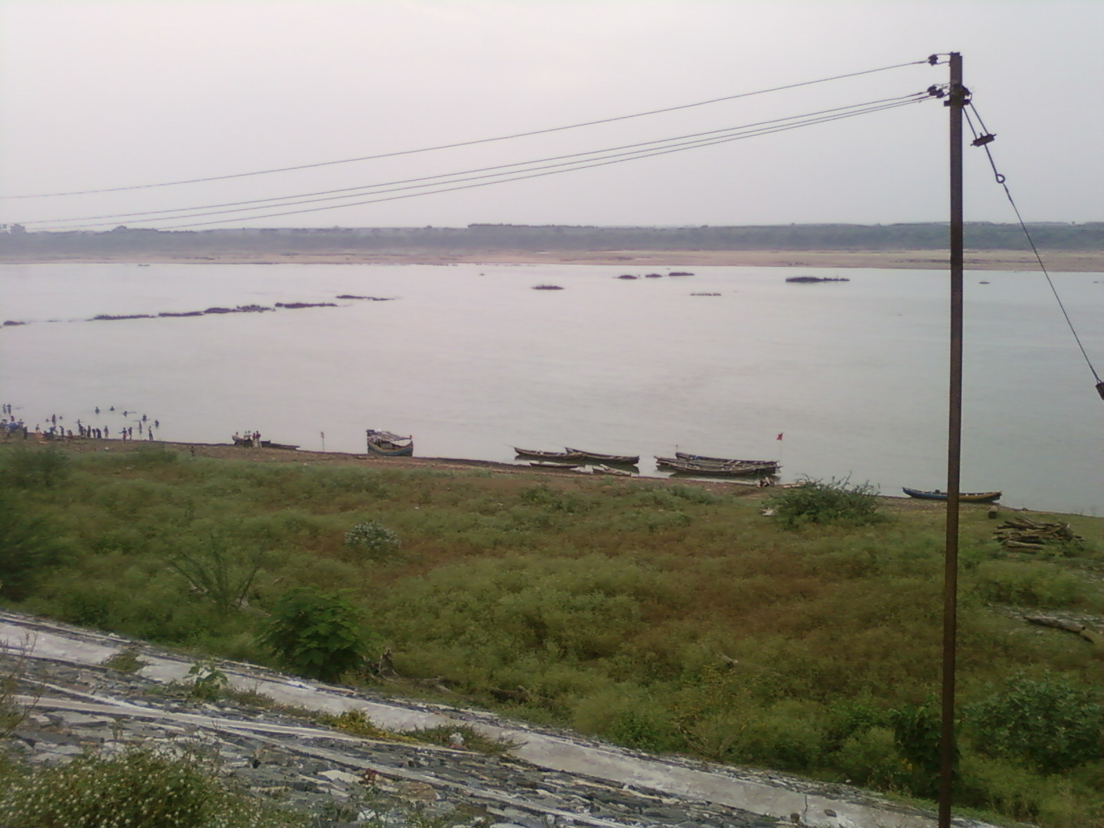 The above is the photo of the Godavari River flowing through Bhadrachalam. The photo was taken in the evening when pilgrims bathe and visit the Rama temple or the Bhadrachalam Temple. Boating is also done in this area.